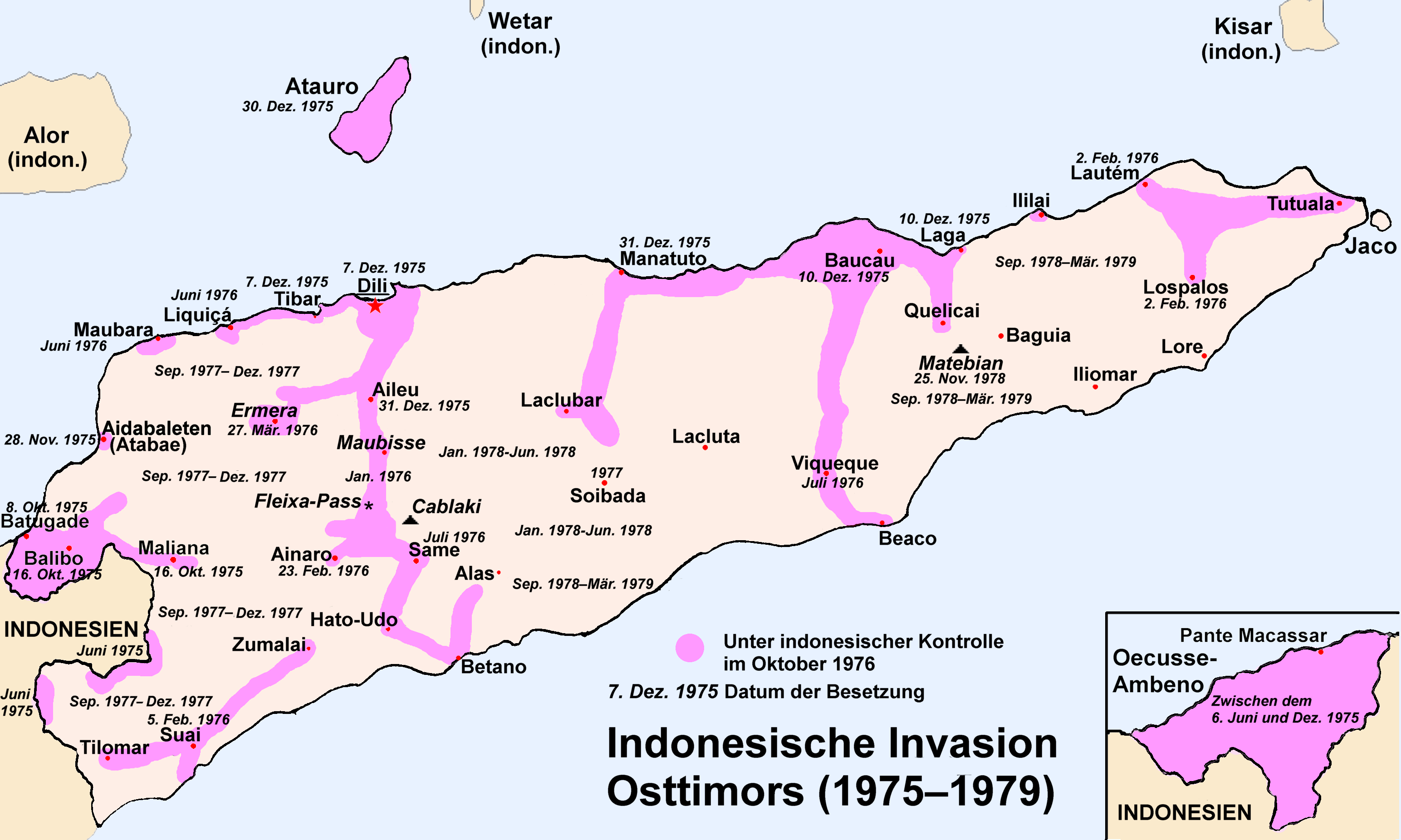 Indonesian Invasion of East Timor (1975-1979)